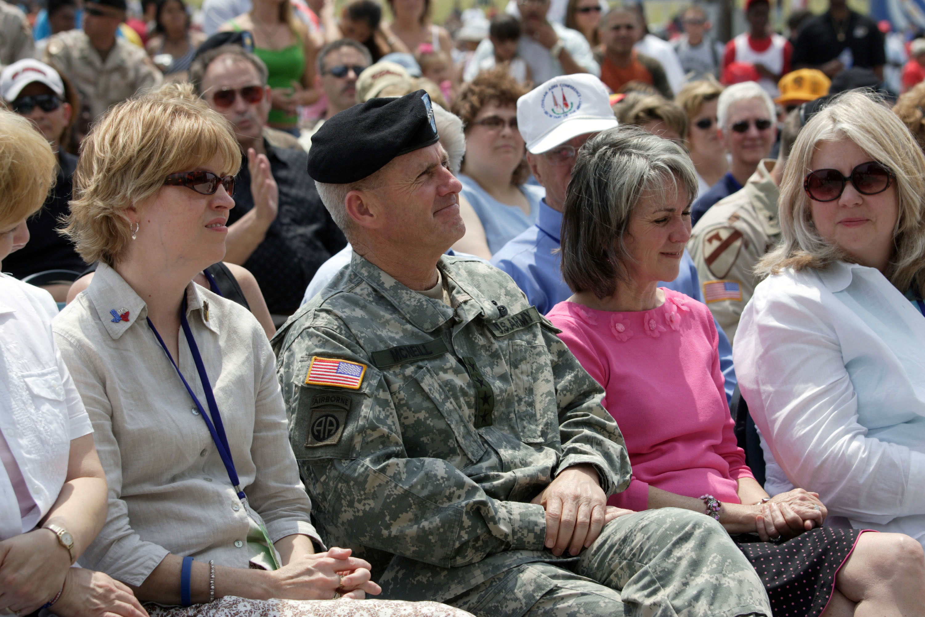 General Dan K. McNeill (center), Commanding General, US Army Forces Command, smiles after being acknowledged during the Opening Ceremony for the Tribute to Our Heroes" celebration held at Fort Hood, Texas. The tribute honors US Army (USA) Soldiers who have recently returned from the War on Terrorism, is sponsored by the Morale, Welfare and Recreation (MWR) Department, and will consist of nine hours of live music and entertainment.